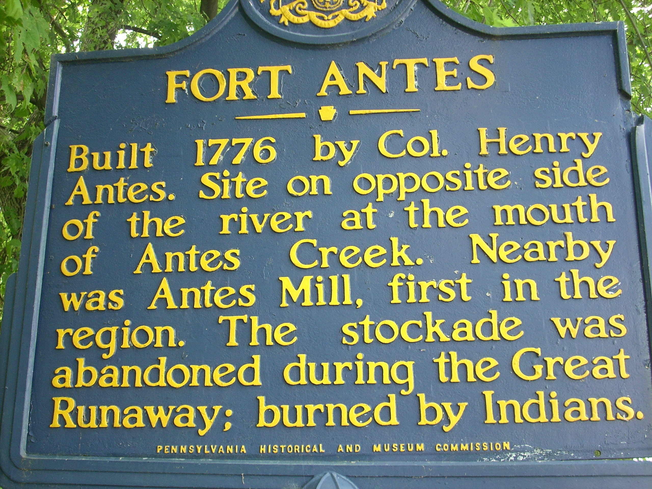 Pennsylvania Historic Marker for Fort Antes. The marker is on PA 44 in Jersey Shore